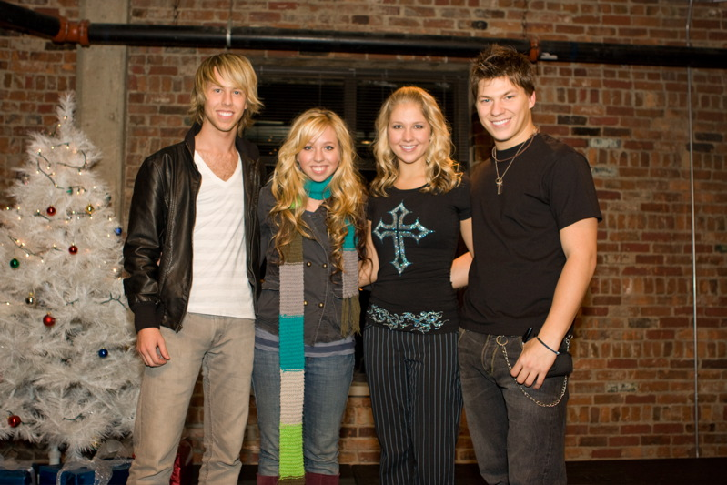 Jump5's farewell concert at Rocketown in downtown Nashville, Tennessee.